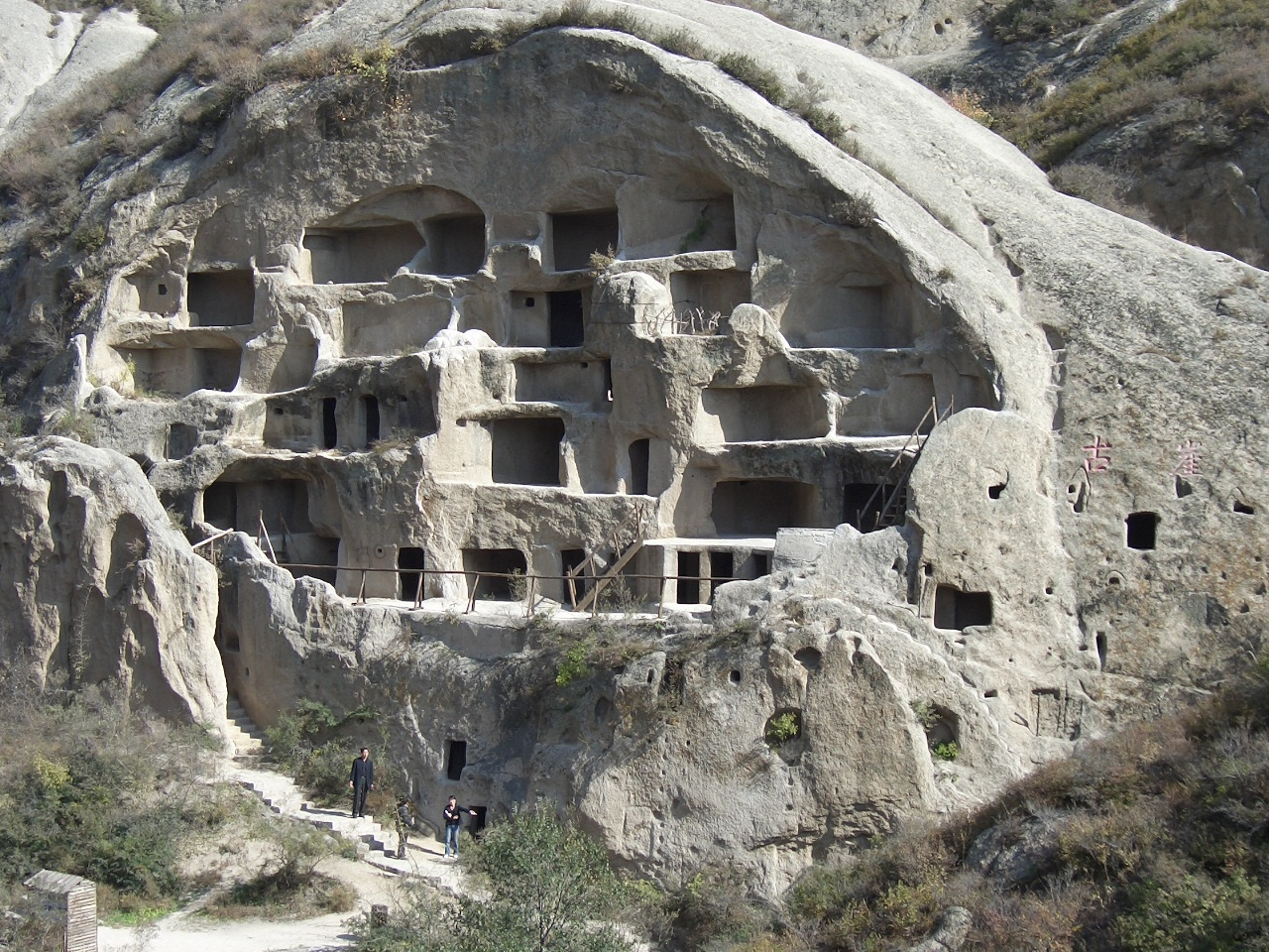 The Guyaju ruins in Yanqing county, Beijing, home of the Xi people of ancient cave-dwellers.